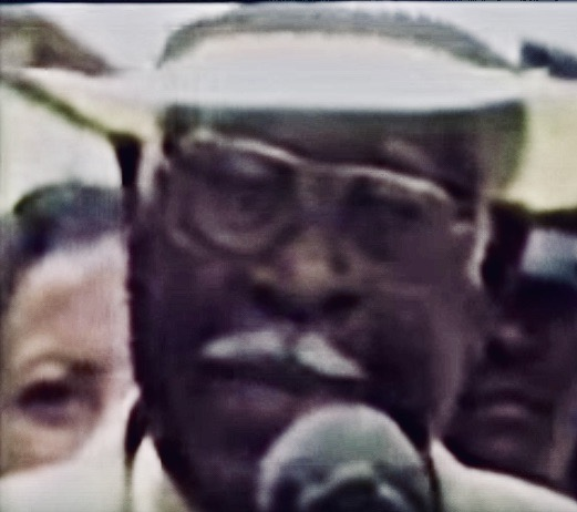 Magloire in 1986 (Haïti)